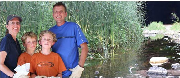 Creek and its cleanup volunteers, in San Luis Obispo County, central California. Creek cleanup organized by the LCSLO—Land Conservancy of San Luis Obispo County From the website of the LCSLO—Land Conservancy of San Luis Obispo County. The LCSLO owns all of the images and logos on its websites.